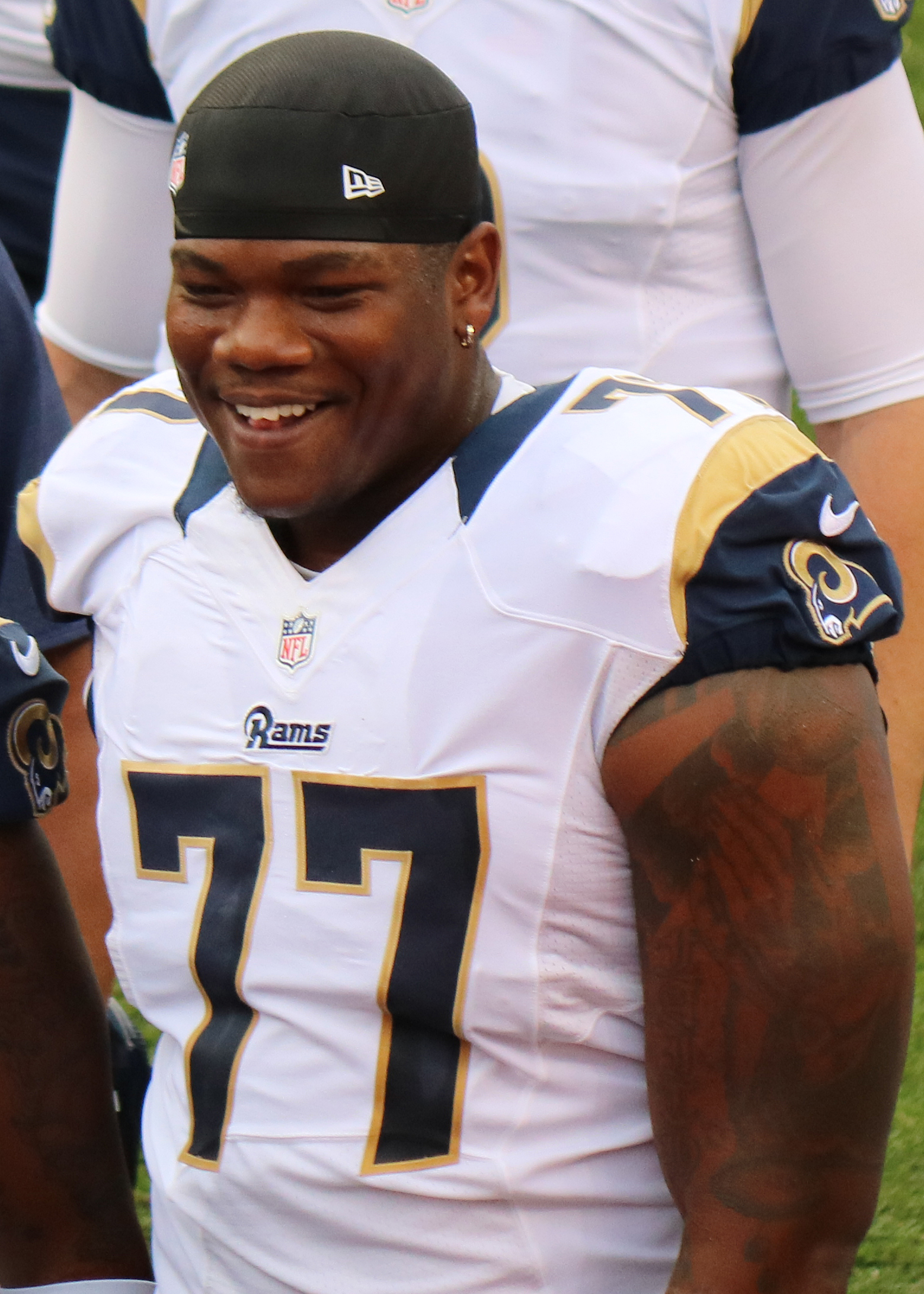 Isaiah Battle, a player on the National Football League.